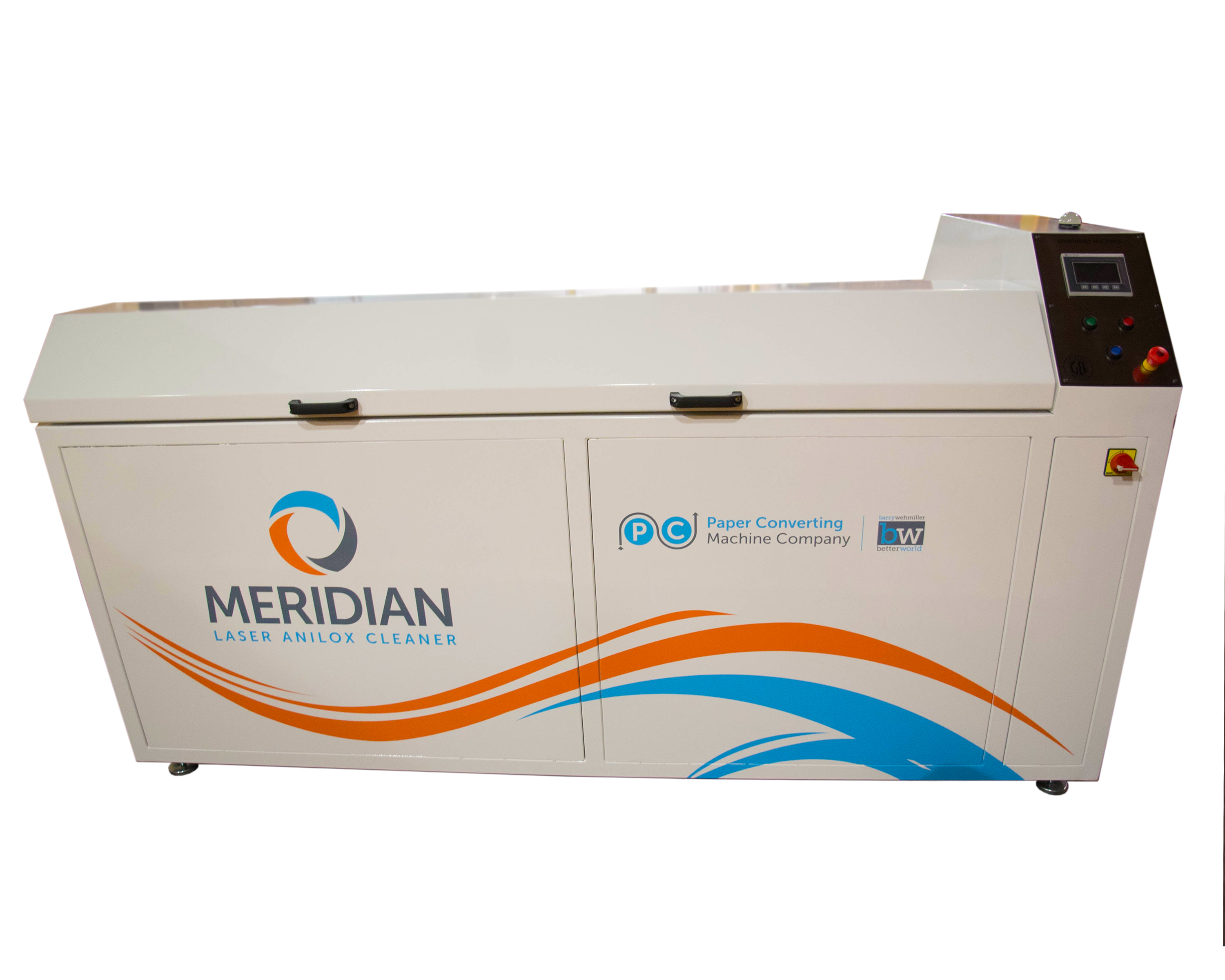 PCMC's Meridian laser anilox cleaner deep cleans the anilox cells without damaging them, using a powerful laser that vaporizes deposited particles inside of the cells. It deeply cleans chrome and ceramic rolls of any line screen without causing surface wear.